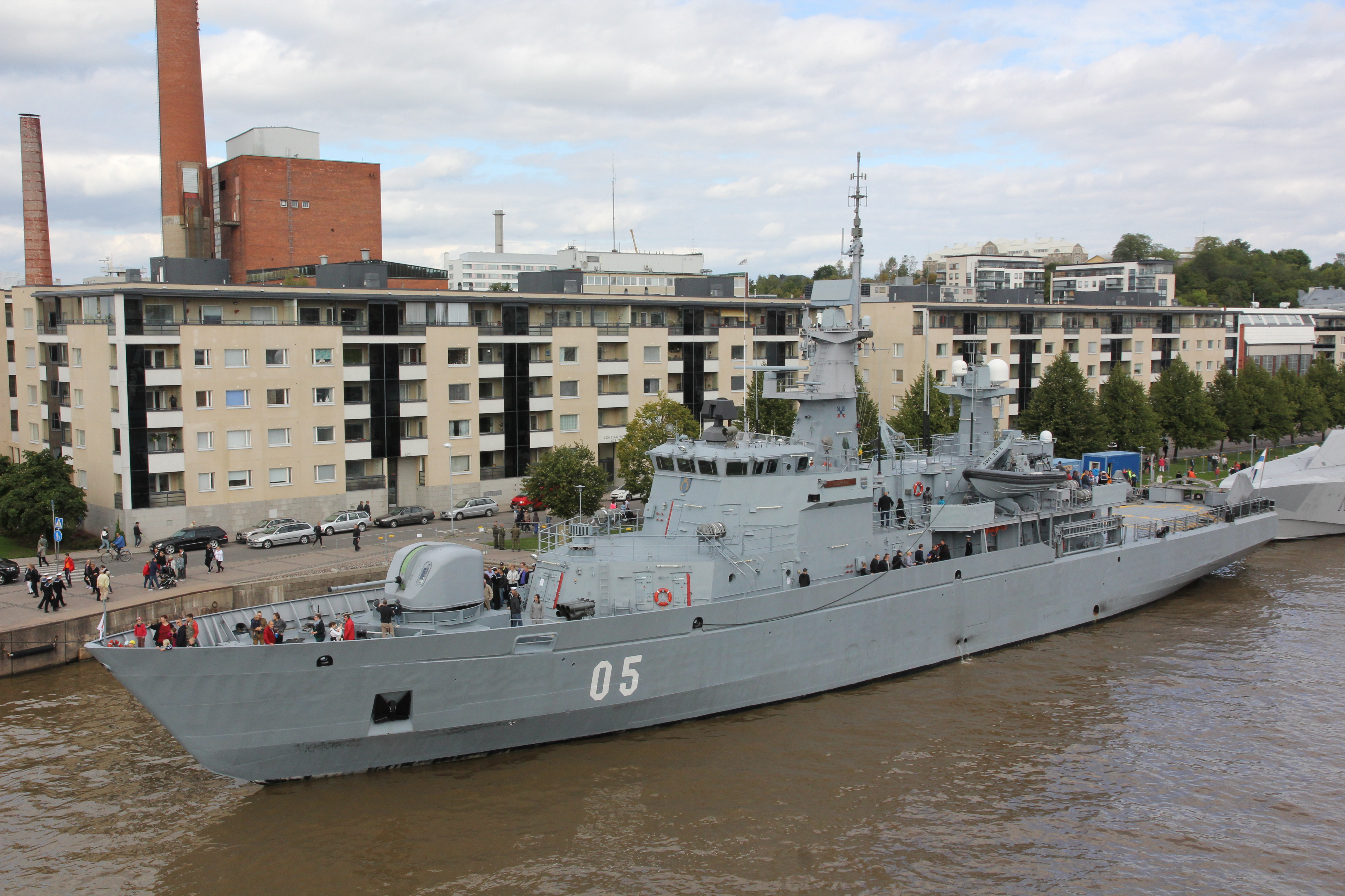 Finnish navy minelayer Uusimaa (05) in Aura river in Turku during the Northern Coasts 2014 exercise public pre sail event.